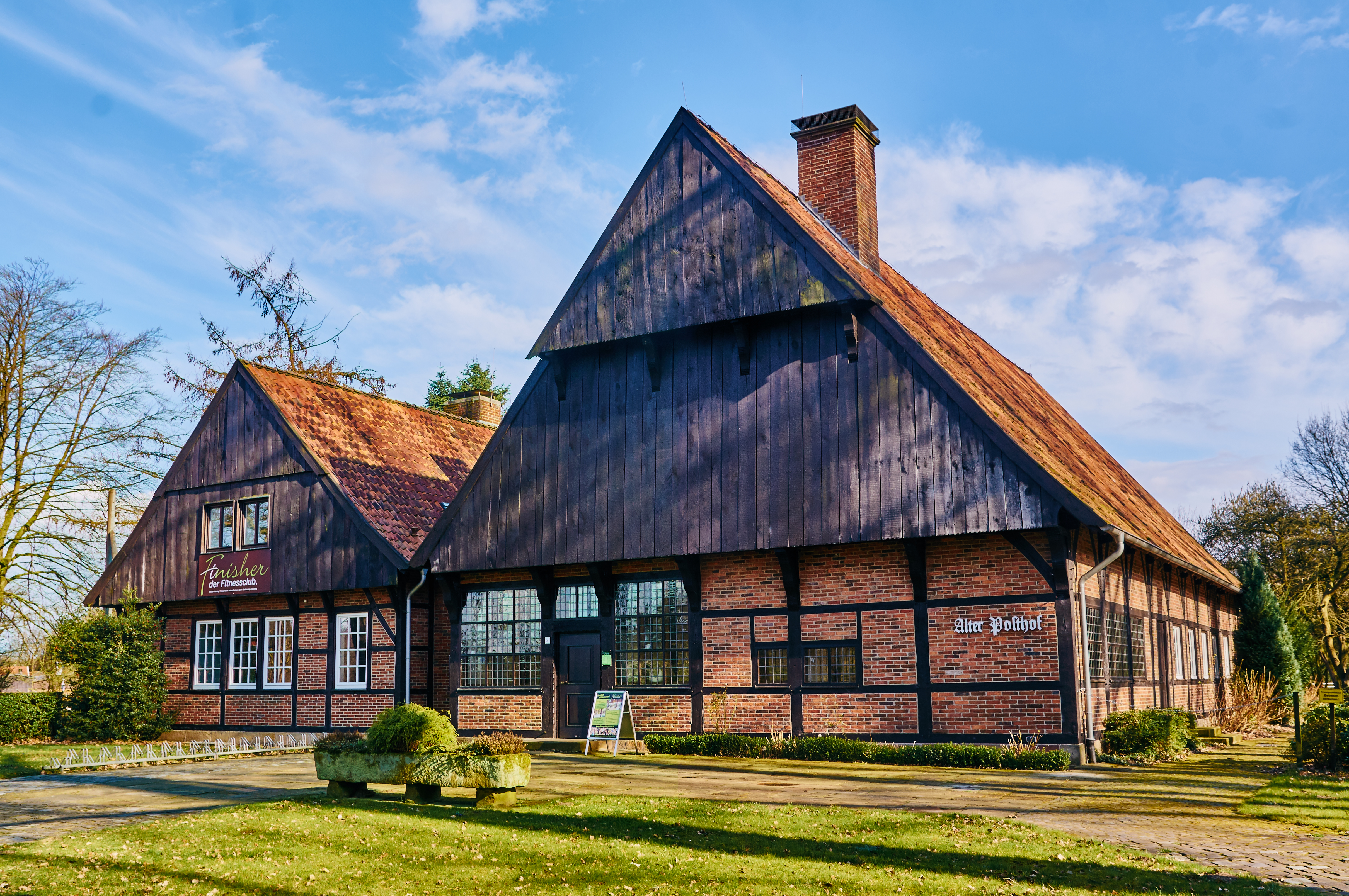 Ancient potsttation (1598) in Welbergen, Ochtrup, North Rhine-Westphalia, Germany. This is a photograph of an architectural monument.